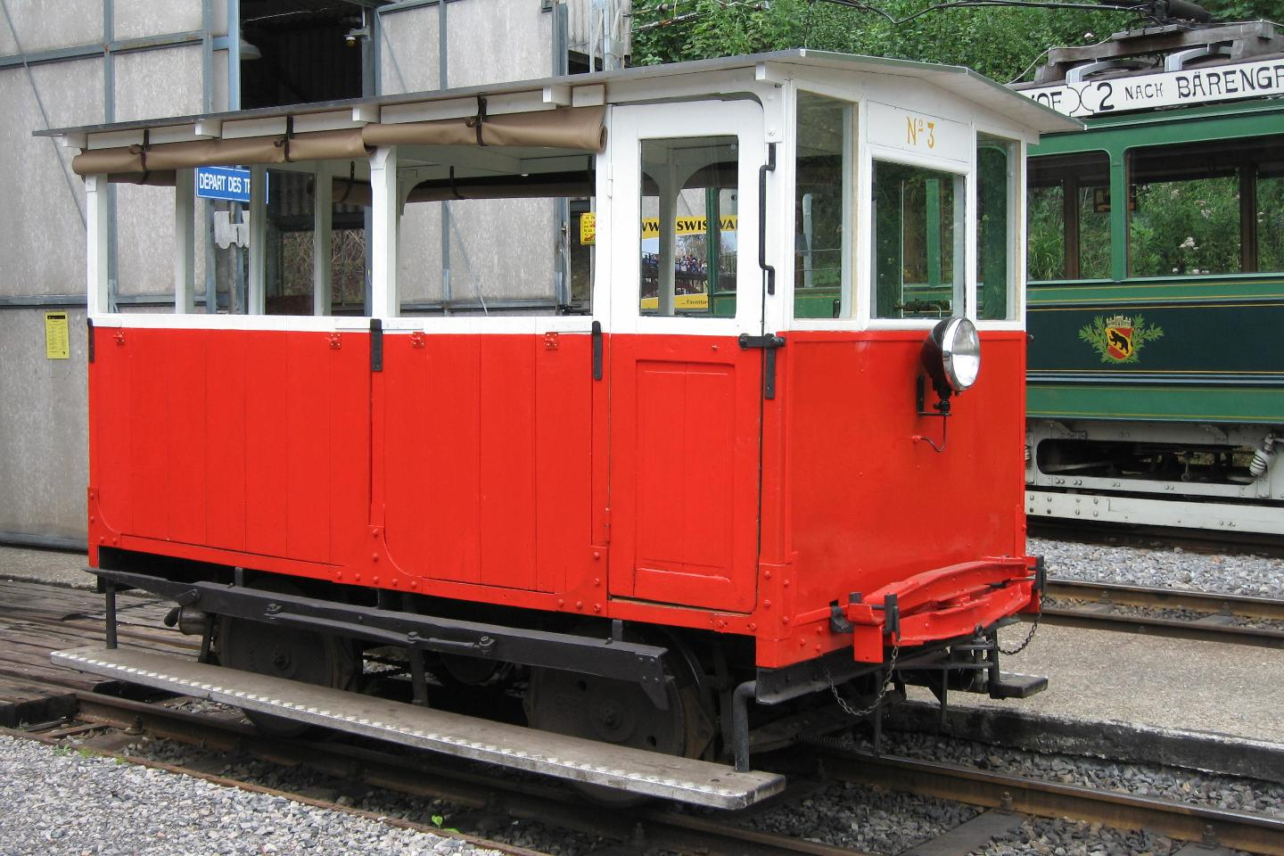 In the foreground the historical draisine number 3 of the Réseau Breton (RB), on the museum area of the Blonay-Chamby Museum Railway in Chamby-Musée (Chaulin) in summer 2011, after the restoration carried out in winter 2010/2011. In the background historic tram motor car Ce 2/2 52 of the former Städtische Strassenbahnen Bern (SSB), now the Städtische Verkehrsbetriebe Bern (SVB) or Bernmobil.